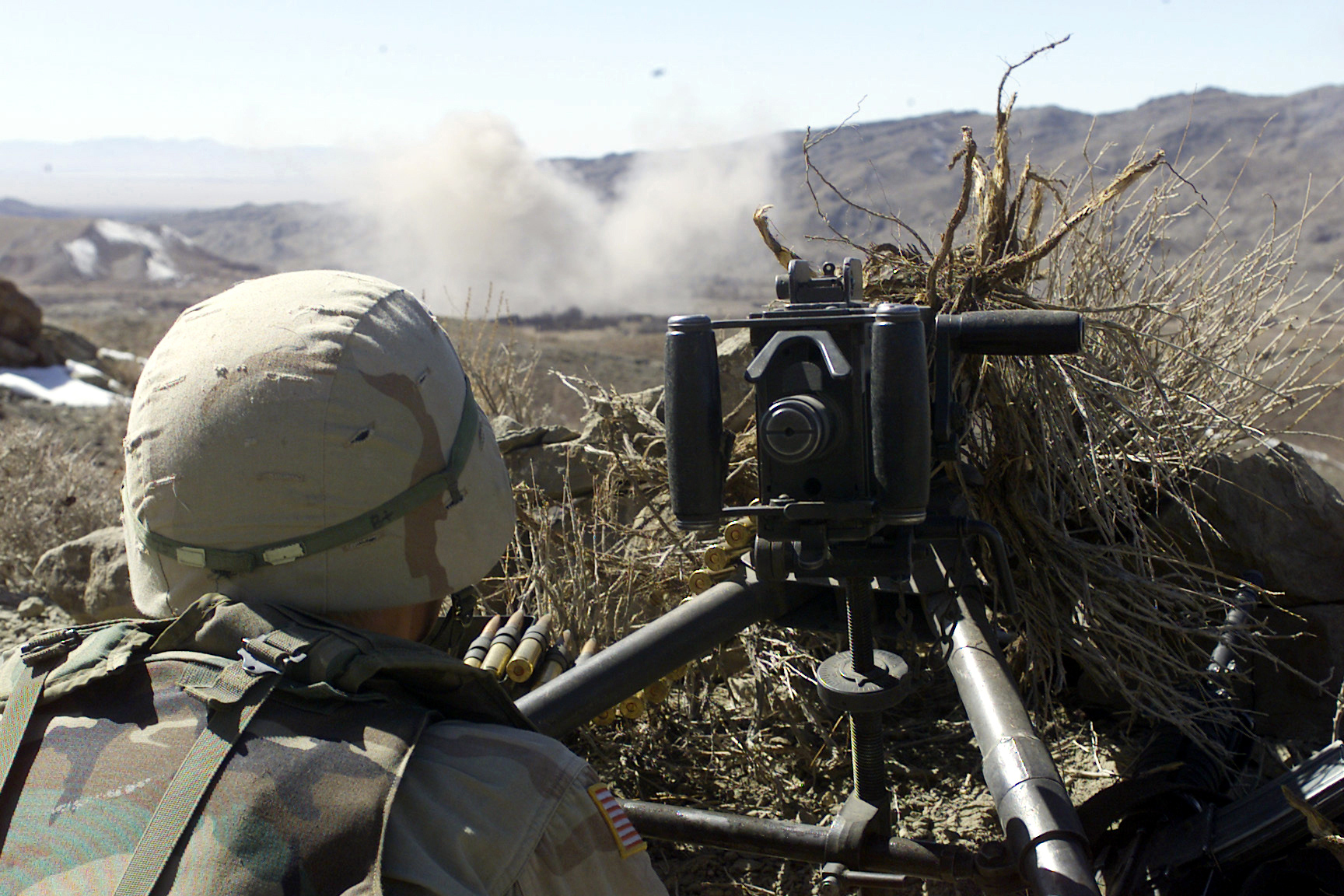 A U.S. Army Soldier with the 1st Battalion, 187th Infantry Regiment, 101st Airborne Division (Air Assault), mans a .50-caliber machine gun during a battle in Operation Anaconda, March 4, 2002. The battlefield is in eastern Afghanistan, south of Gardez in the Shah-e-kot mountain range. (U.S. Army photo/Spc. David Marck Jr.)